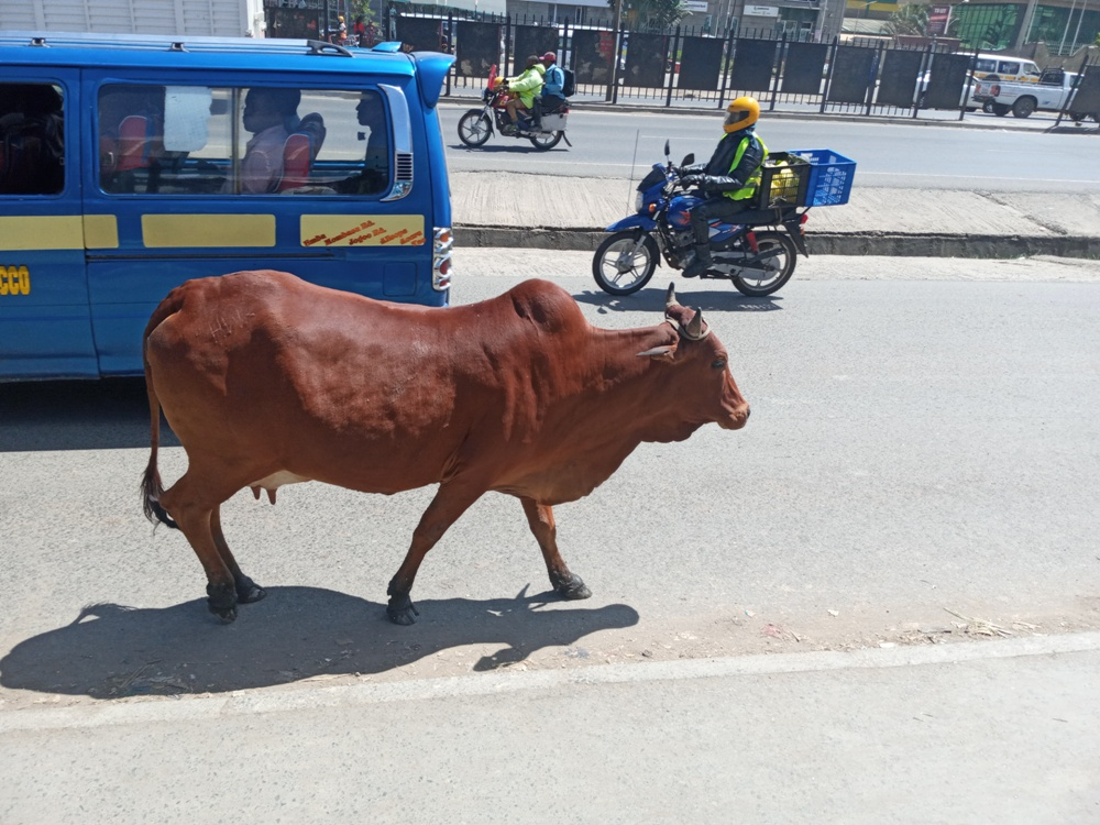 The cows and Cars in roads in Nairobi City This is an image with the theme "Africa on the Move or Transport" from: Kenya